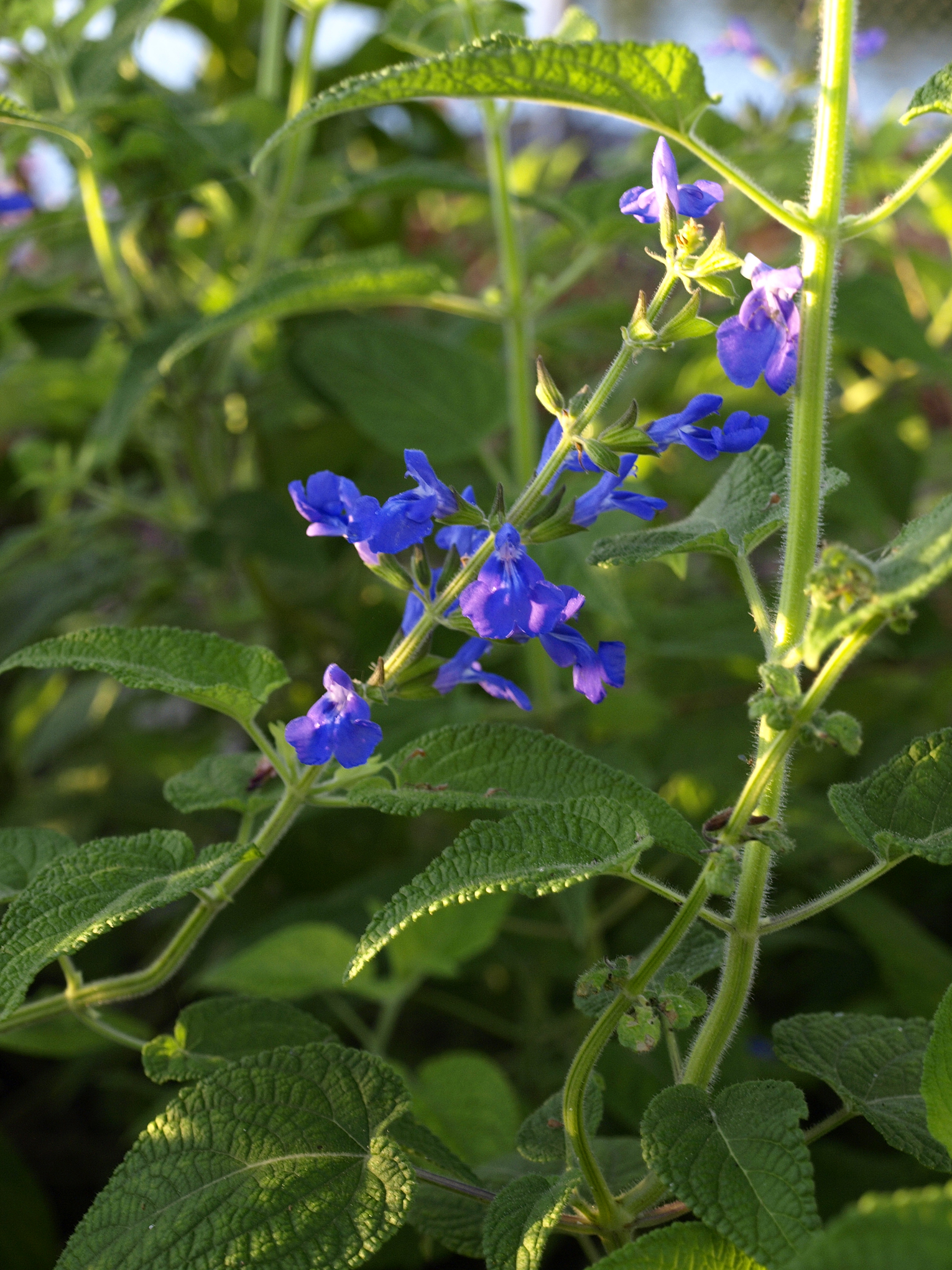 South Miami, Florida, USA